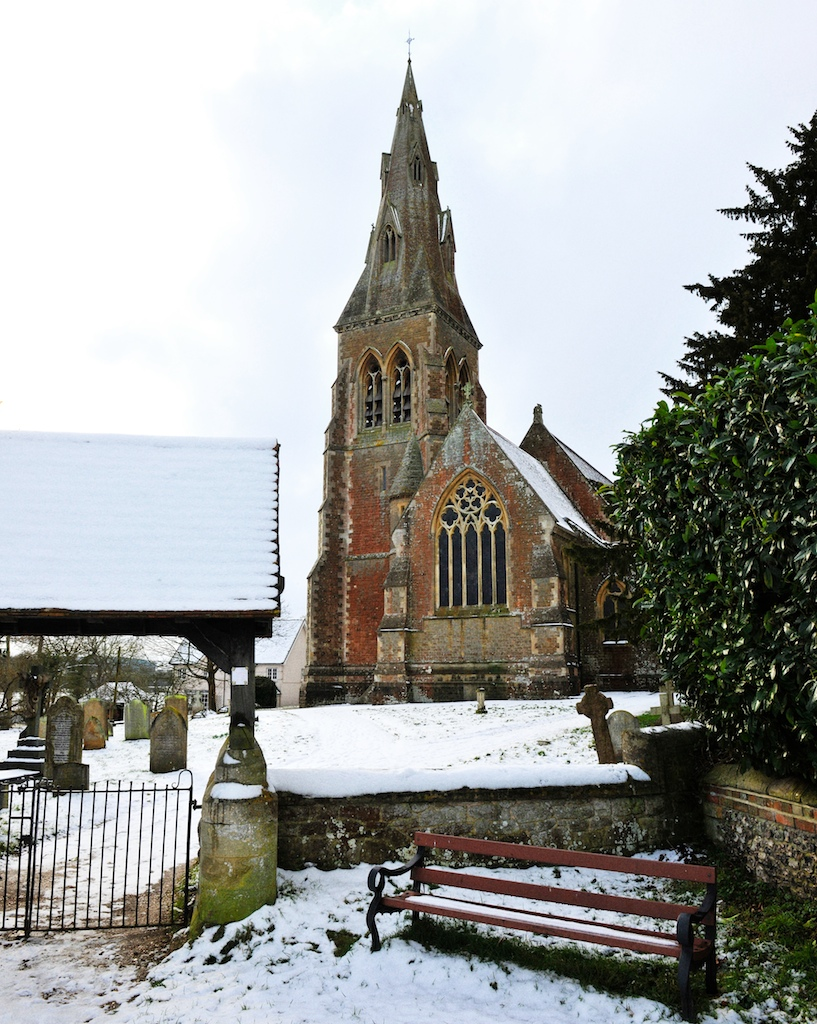 St Mary's parish church, Stratfield Mortimer, Berkshire, in snow